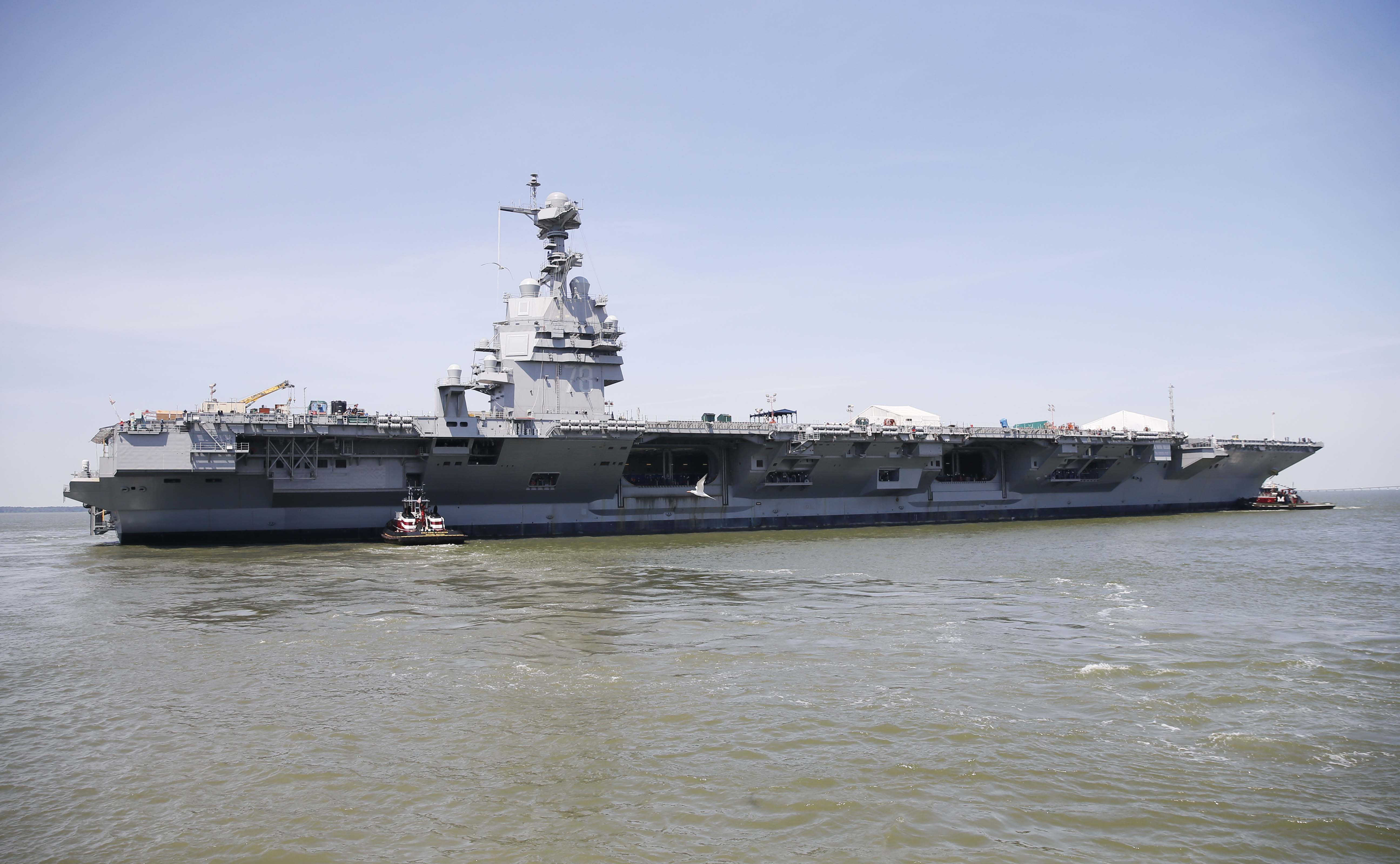 Tug boats maneuver the U.S. Navy aircraft carrier USS Gerald R. Ford (CVN-78) into the James River during the ship's "Turn Ship evolution".